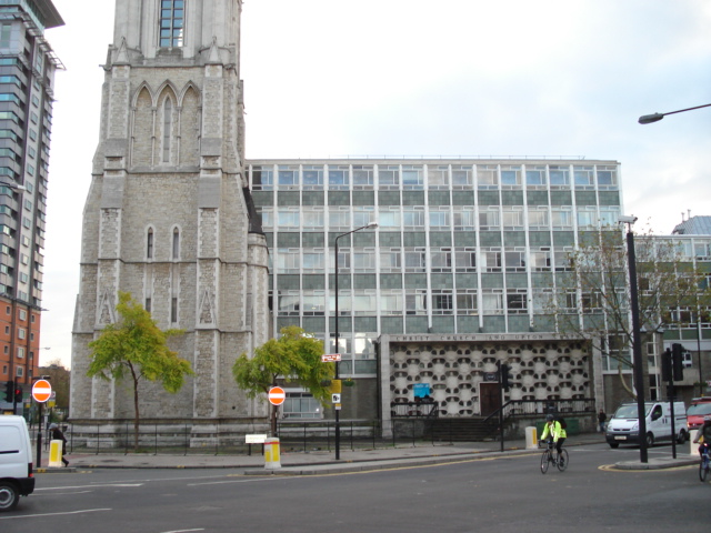 photo of Lincoln Tower and Christ Church & Upton Chapel, Kennington Road junction with Westminster Bridge Road, London